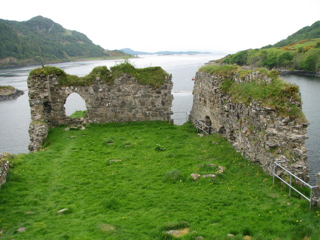 Strome Castle The castle dates from the early years of the fifteenth century and survived intact for two hundred years or so. It was blown up by members of the Mckenzie Clan when they were in dispute with the rival Clan McDonald. It has been in a ruined condition ever since. It is seen here with Loch Carron stretching out behind it to the open sea, the Strome Islands are also visible